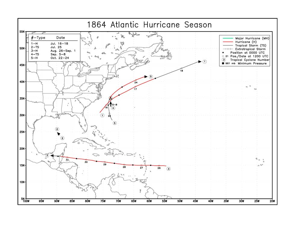 Season summary provided by NOAA of the 1864 Atlantic hurricane season.